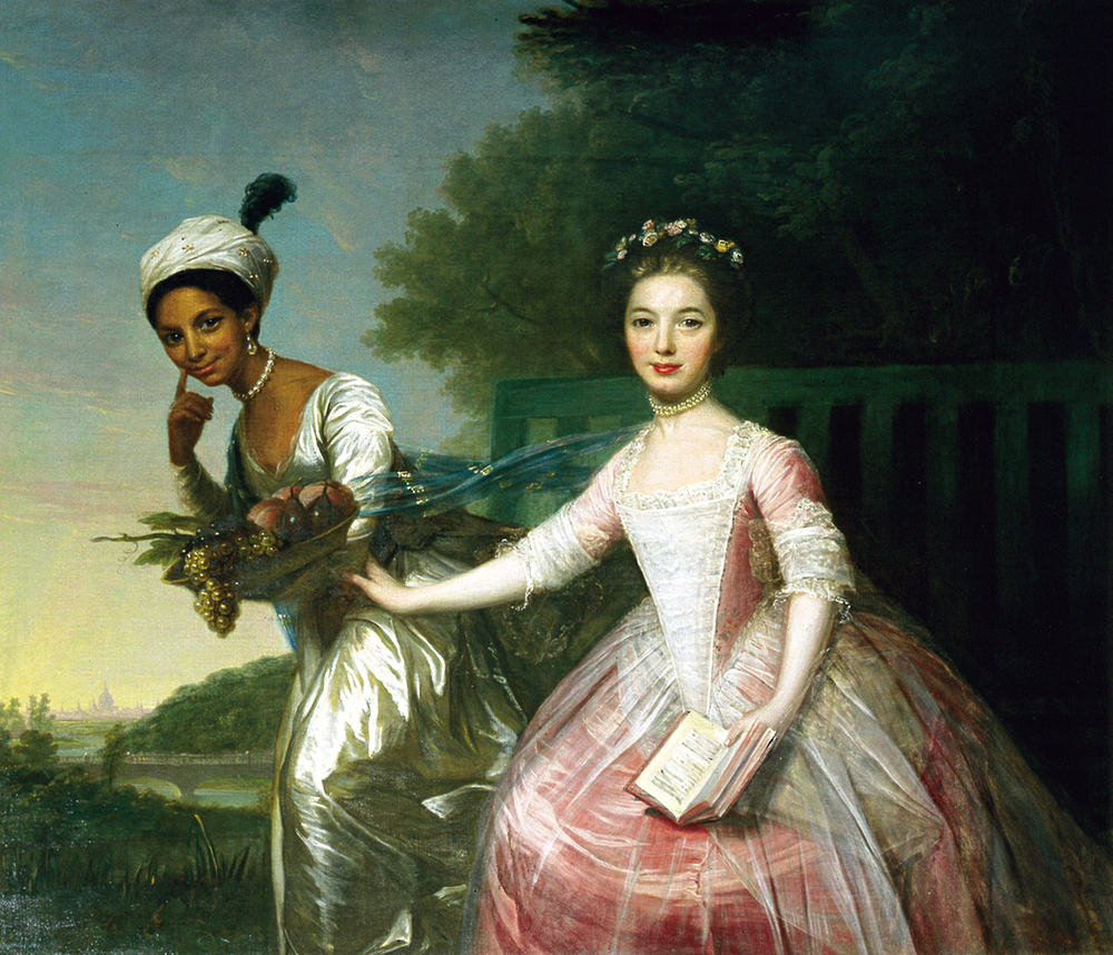 Portrait of Dido Elizabeth Belle Lindsay (1761-1804) and her cousin Lady Elizabeth Murray (1760-1825). The original is in Scone Palace, Perthshire, Scotland.